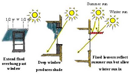 shading devieces